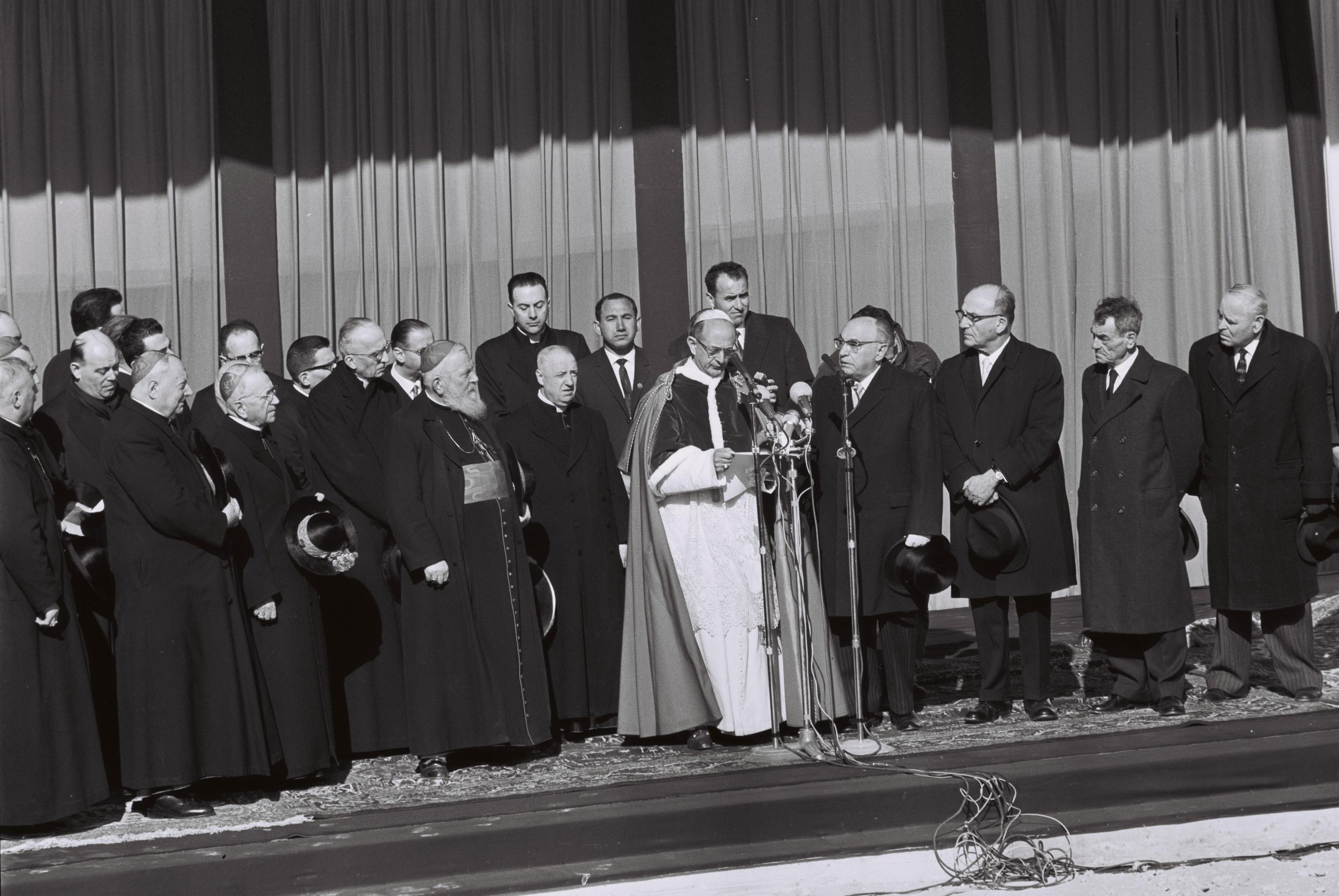 original description: POPE PAULUS VI REPLYING TO PRES. ZALMAN SHAZAR'S ADDRESS DURING THE OFFICIAL WELCOMING CEREMONY AT MEGIDDO.